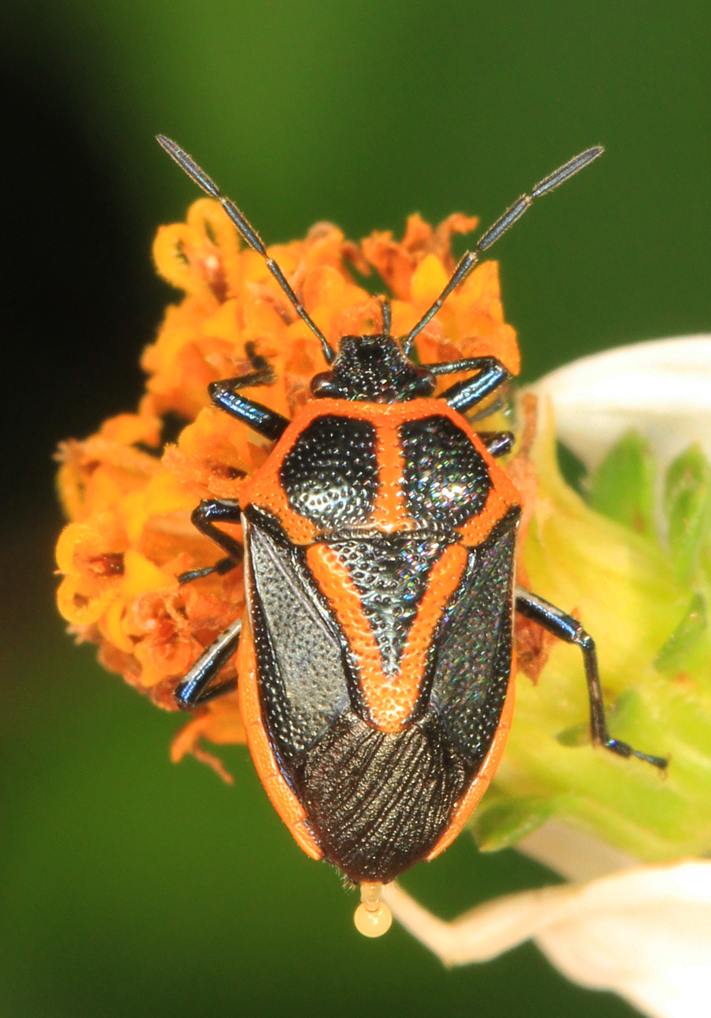 Stink Bug - Perillus strigipes, Okaloacoochee Slough State Forest, Felda, Florida. HBBBT - I think it's laying an egg